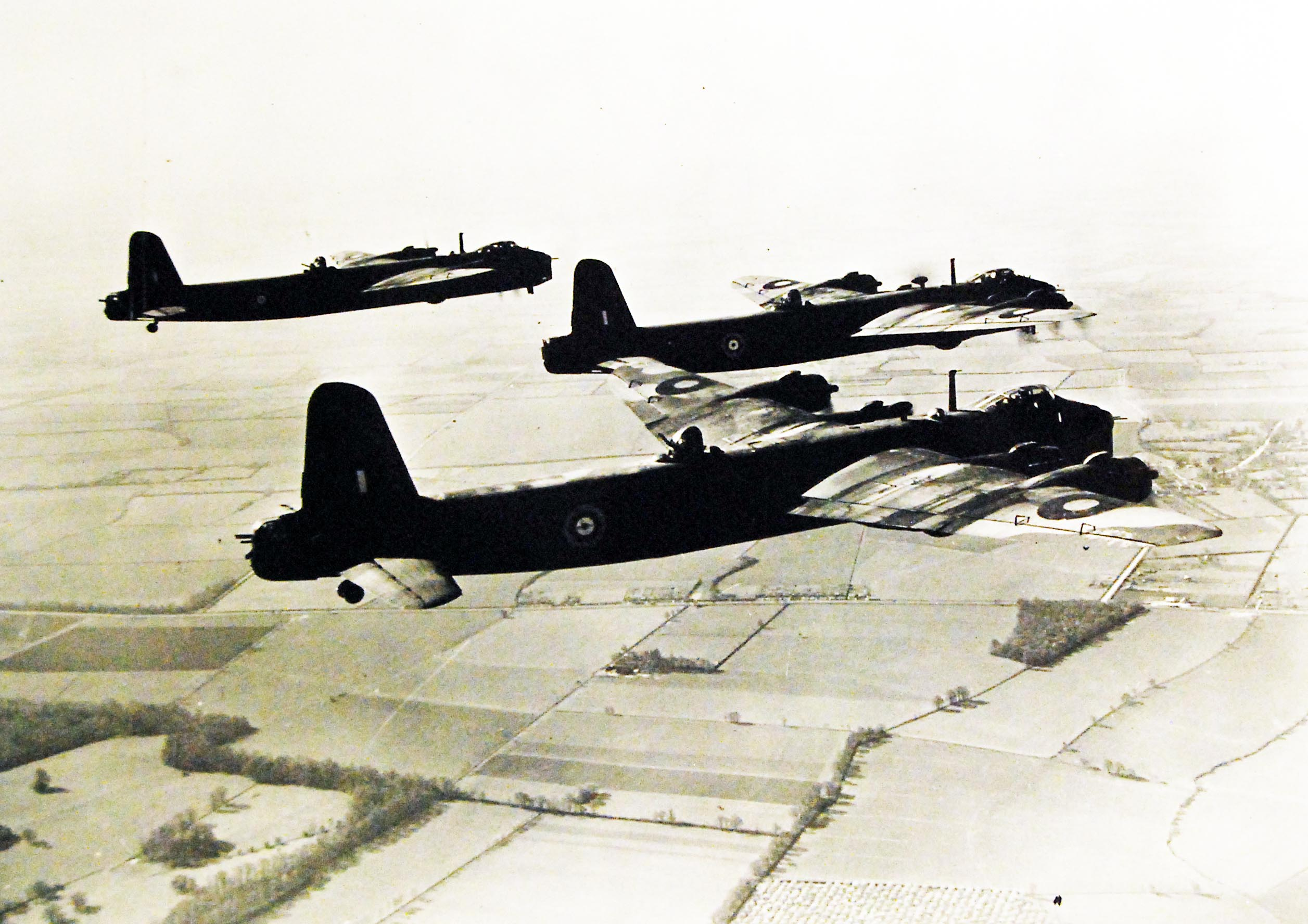 Lot 11635-8: Three Stirling bombers taking off over Great Britain, 1942-43. Office of War Information. Courtesy of the Library of Congress. (2016/06/24).